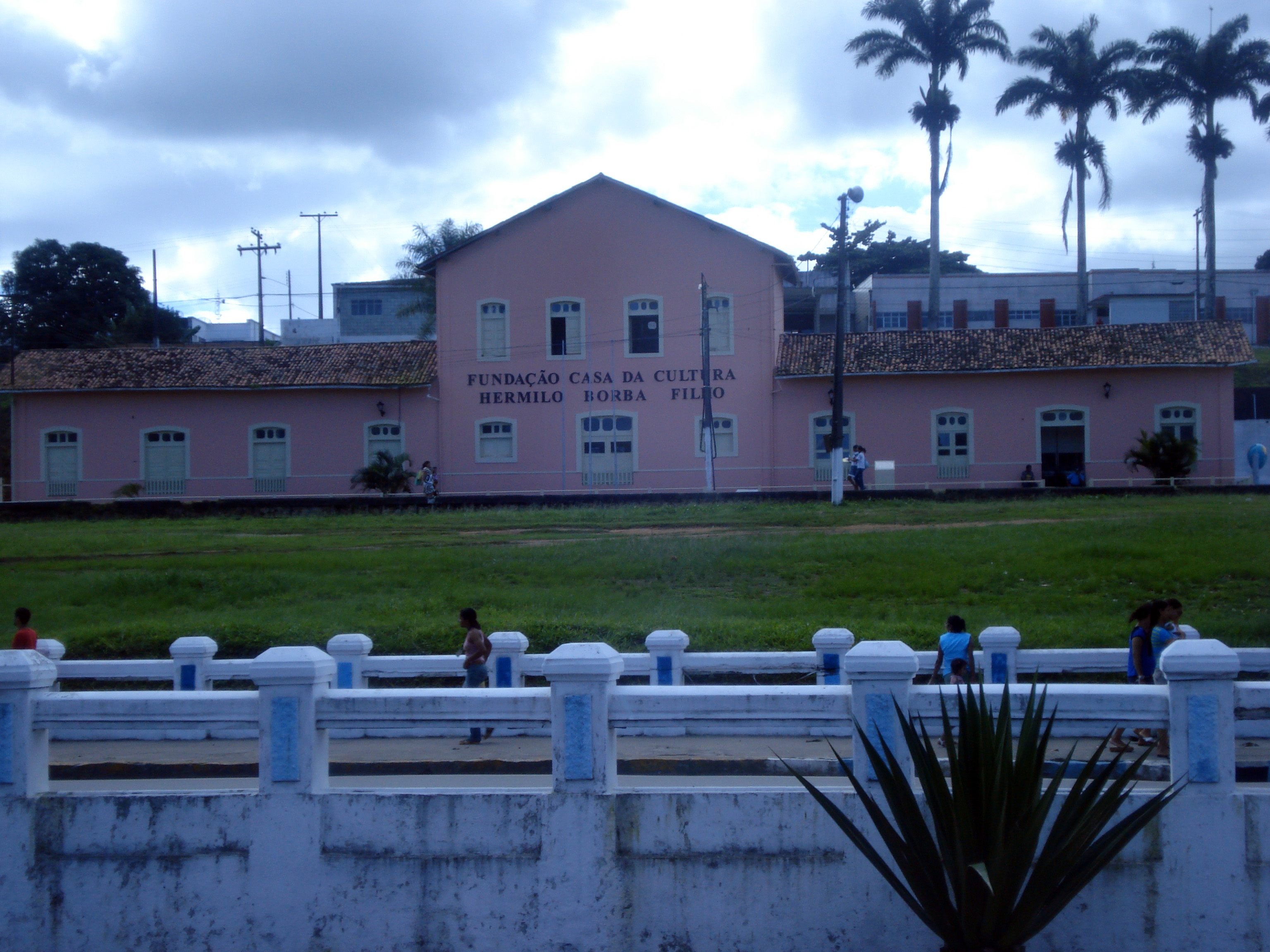 Casa da Cultura ("House of Culture") in Palmares, Pernambuco, Brazil